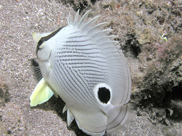 Four-Eye Butterflyfish (Chaetodon capistratus), Saba, Netherlands Antilles. Image taken by Clark Anderson/Aquaimages.